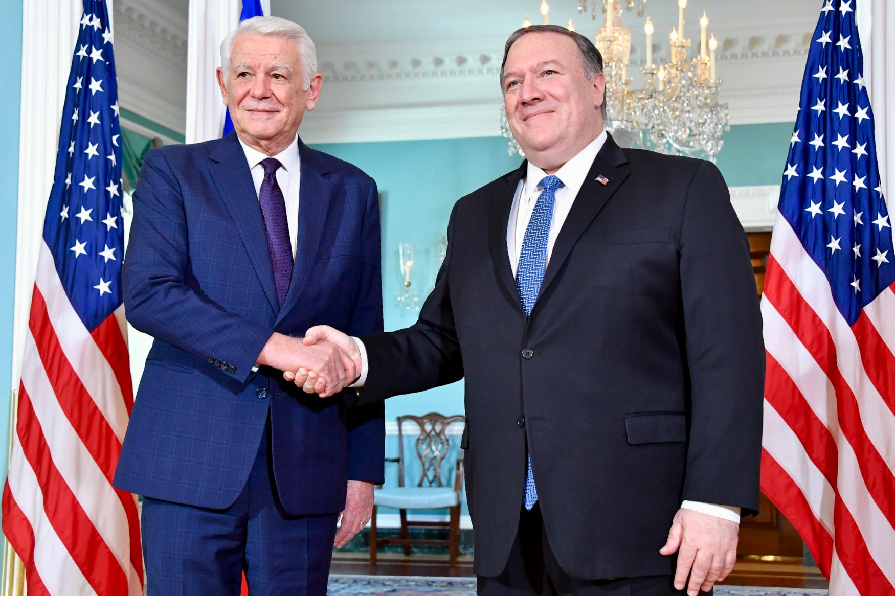 U.S. Secretary of State Michael R. Pompeo meets with Romanian Foreign Minister Teodor Melescanu at the U.S. Department of State in Washington, D.C., on April 1, 2019. [State Department photo by Michael Gross/ Public Domain]